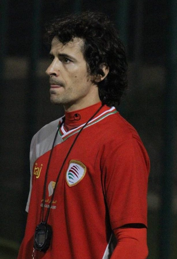 Ricardo Gomes da Silva taking part in a training session with Oman U-23 in Kuwait for WAFF Championship. 19 December 2012 Ali Sabah Al-Salem Stadium Photographer email id